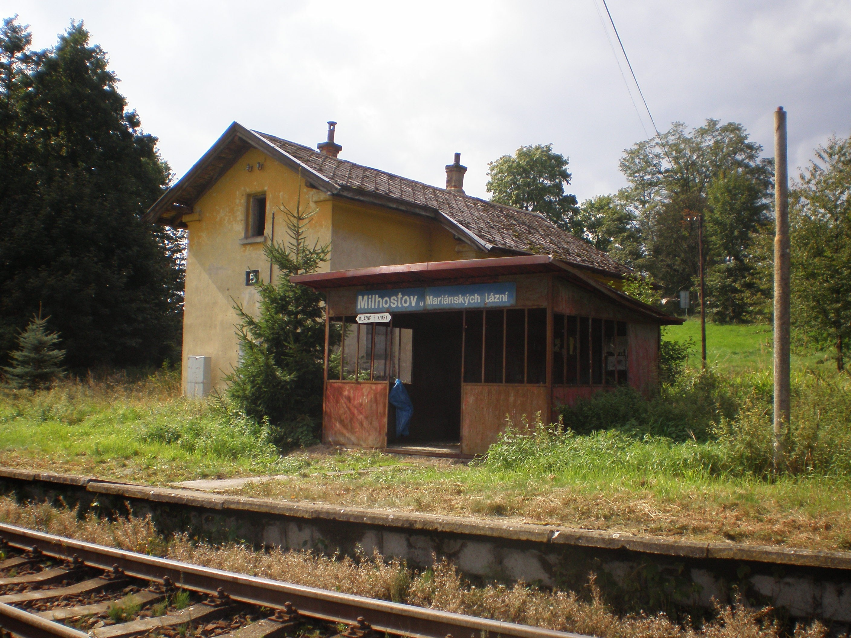 Milhostov (Zádub-Závišín), Cheb District, Czech Republic, train station